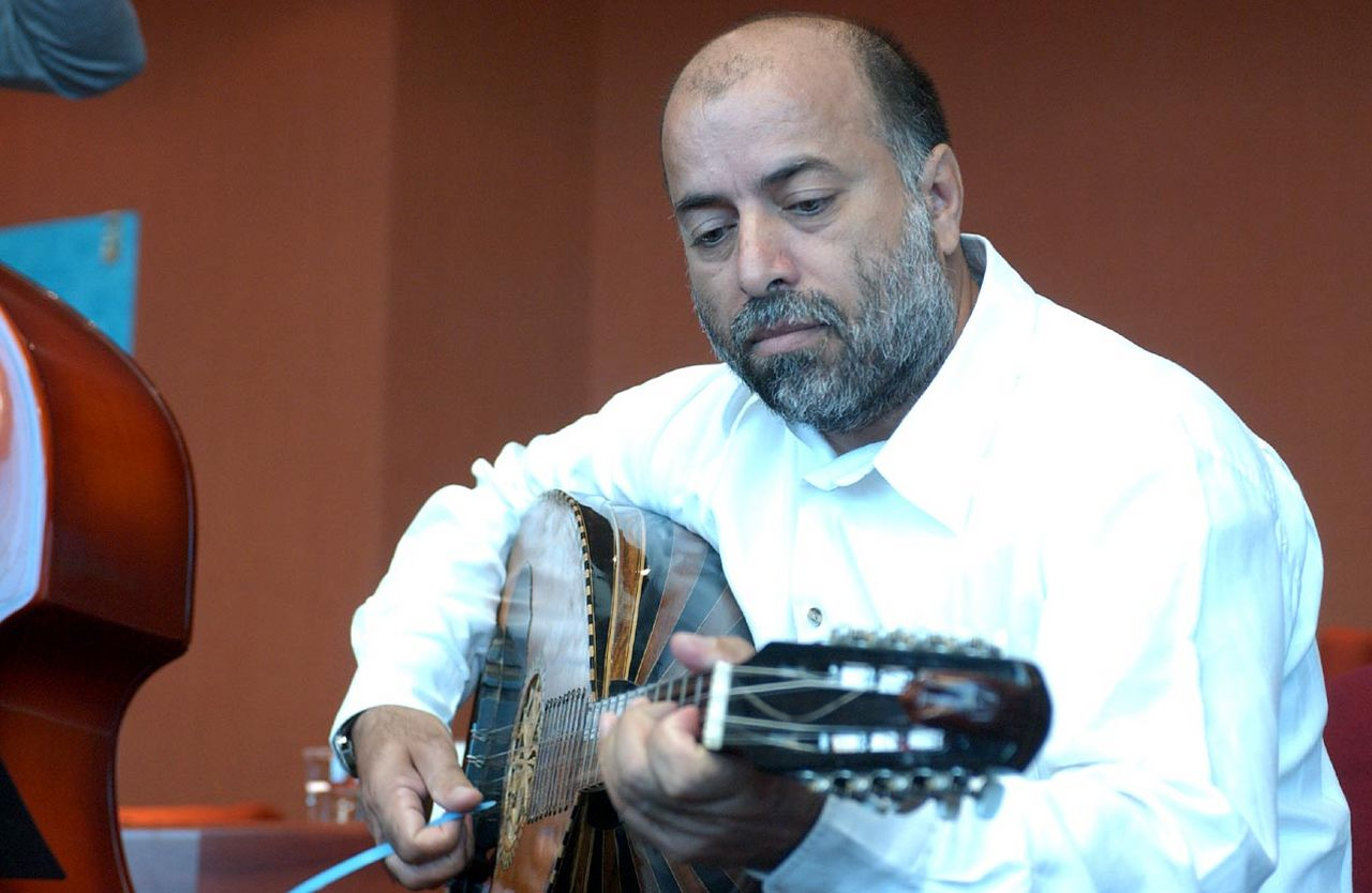 The Music teacher, composer, lute player Evagoras Karageorgis from Cyprus. He grew up in Tsada-Paphos in 1957. In 1982 he went to the USA where he studied music at the Aaron Copland School of Music (City University of New York) with Allen Brings and Leo Kraft (1981-1988).